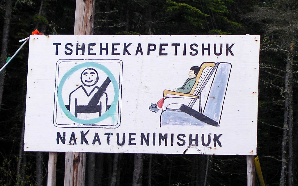 “Buckle up your children” road sign in Innu-aimun language, in the Pointe-Parent reservation in Natasquan, Québec.